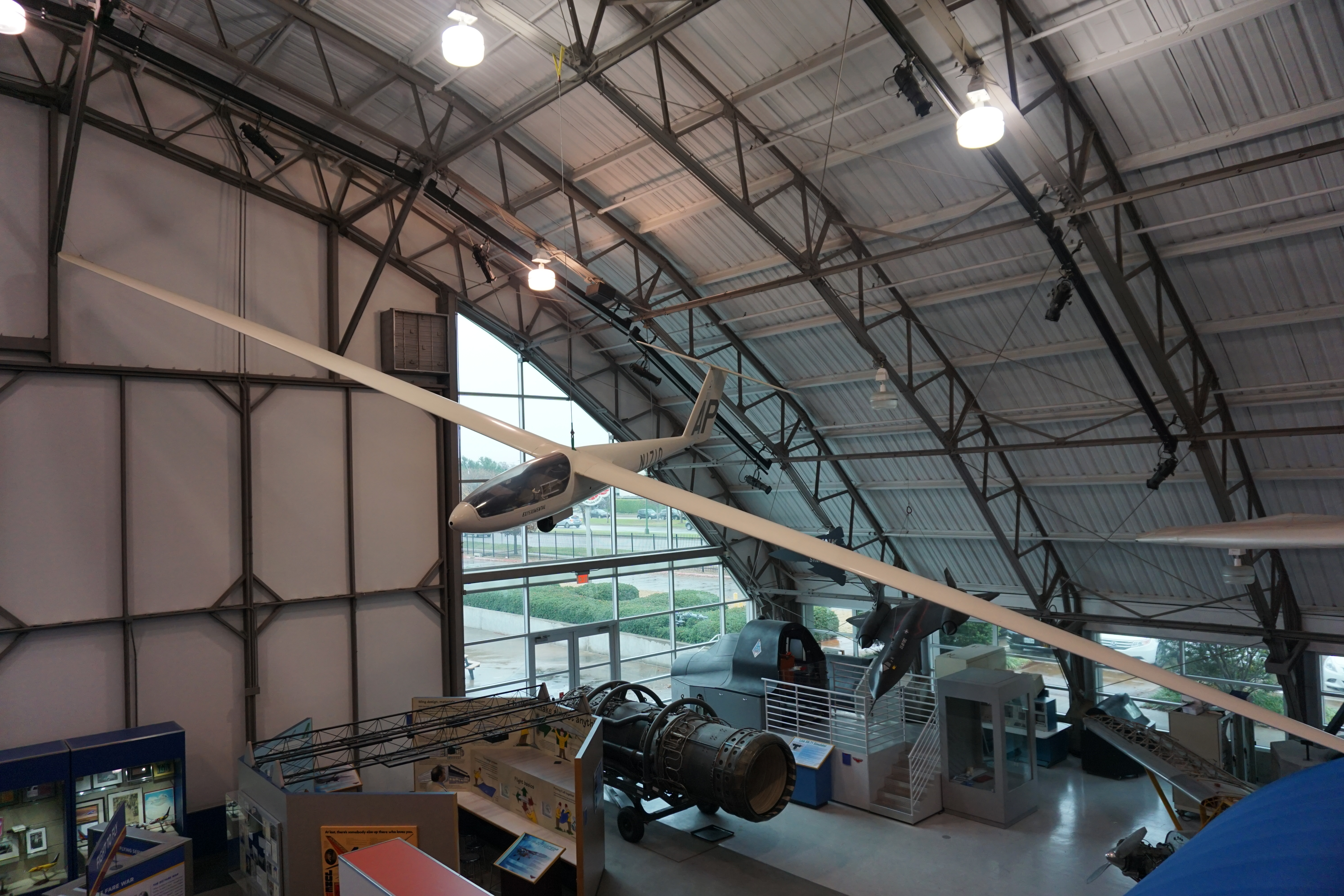 A Glasflügel BS-1 on display at the Frontiers of Flight Museum at Dallas Love Field in Dallas, Texas (United States).